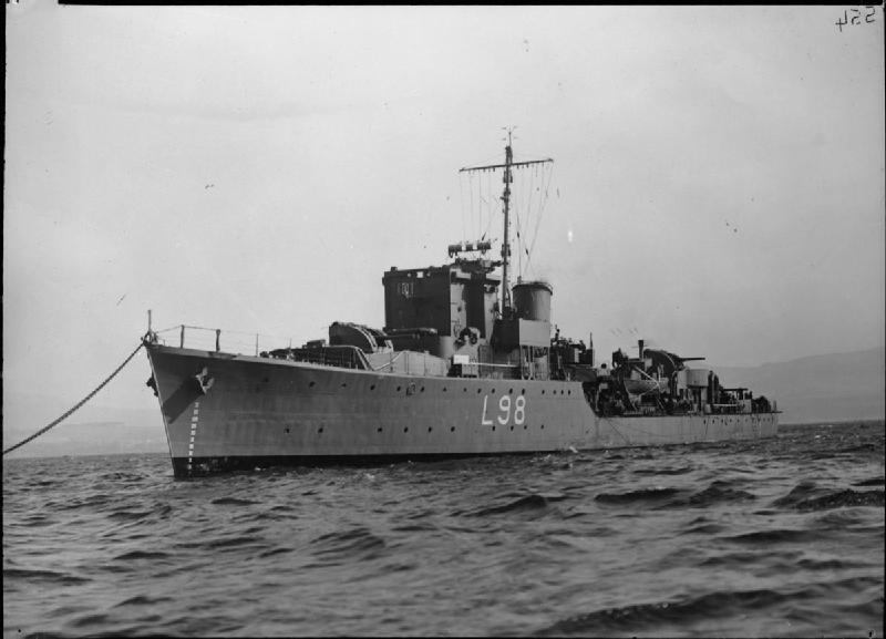 HMS Oakley HMS OAKLEY, formerly HMS TICKHAM (L98)at a buoy in the Clyde.